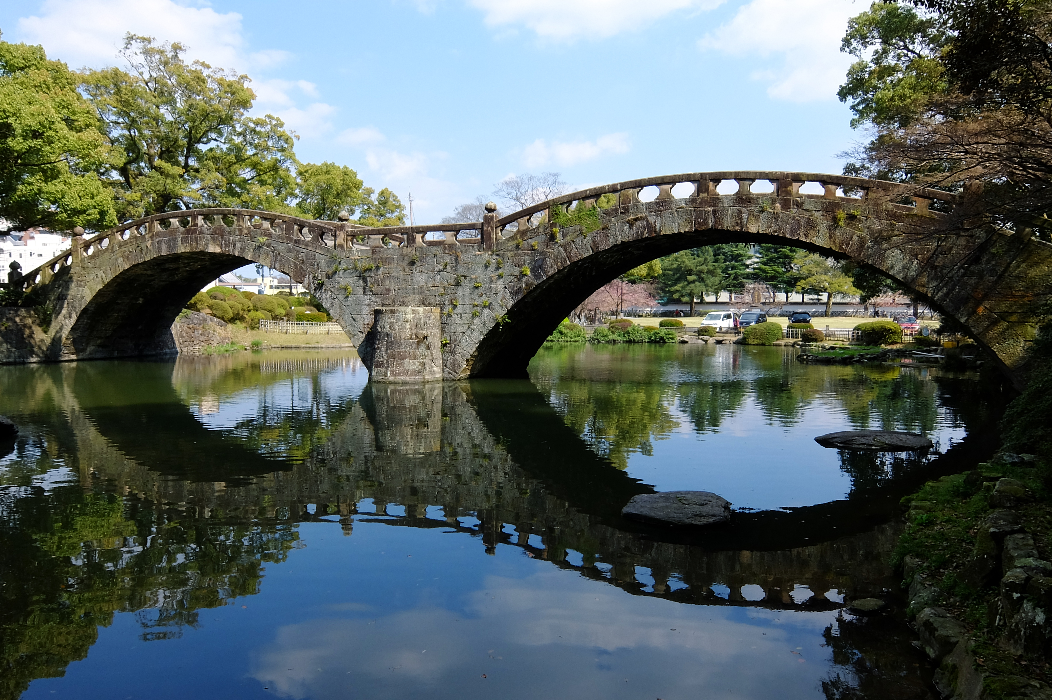 The Megane-bashi of Isahaya Park in Isahaya, Nagasaki prefecture, Japan.